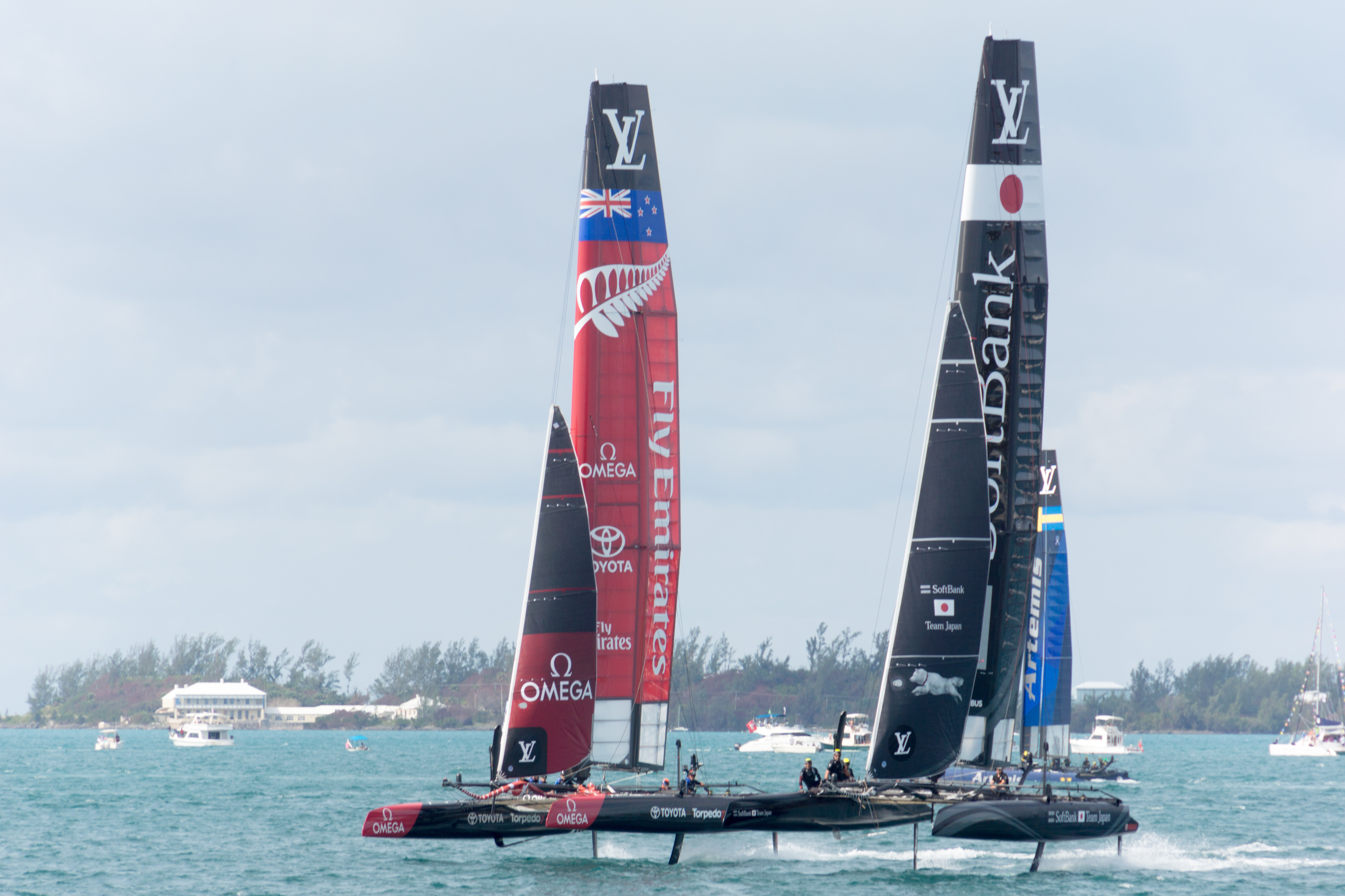 Team New Zealand and Team Japan racing in the AC45F World Series in Bermuda